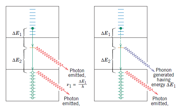 حرکت فوتون های دارای انرژی کمتر از لایه باند